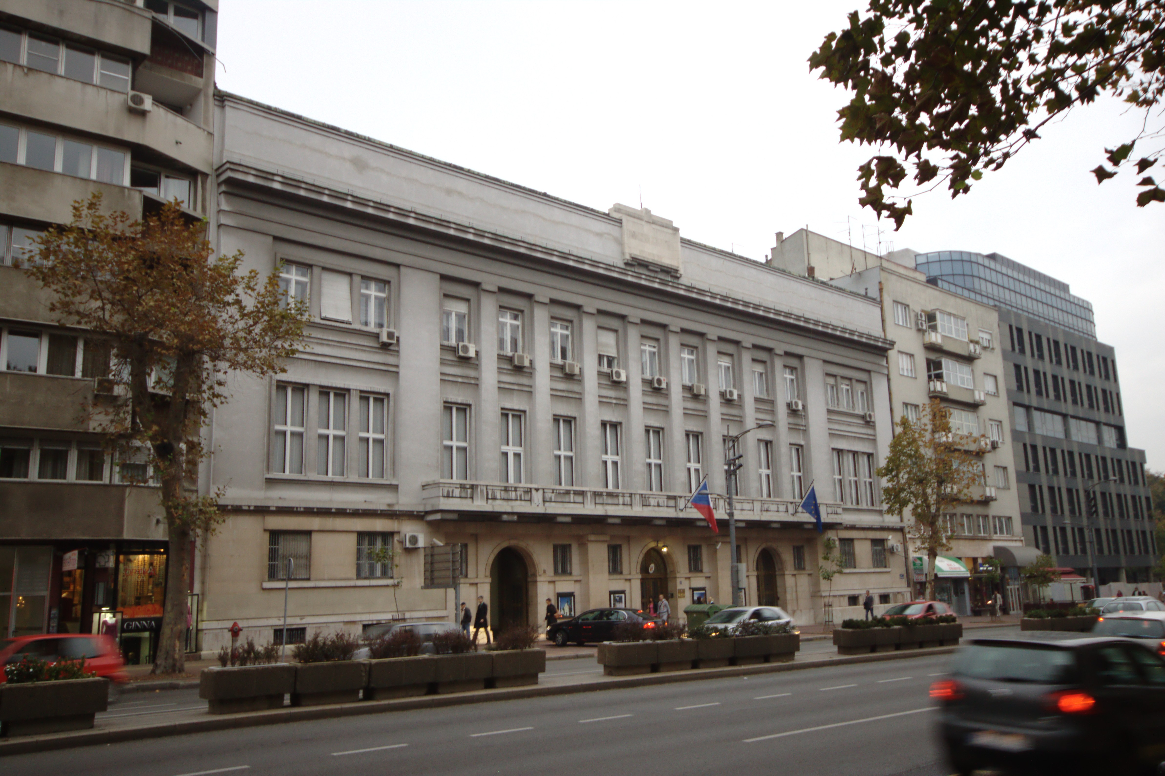 Central part of Belgrade, Serbia